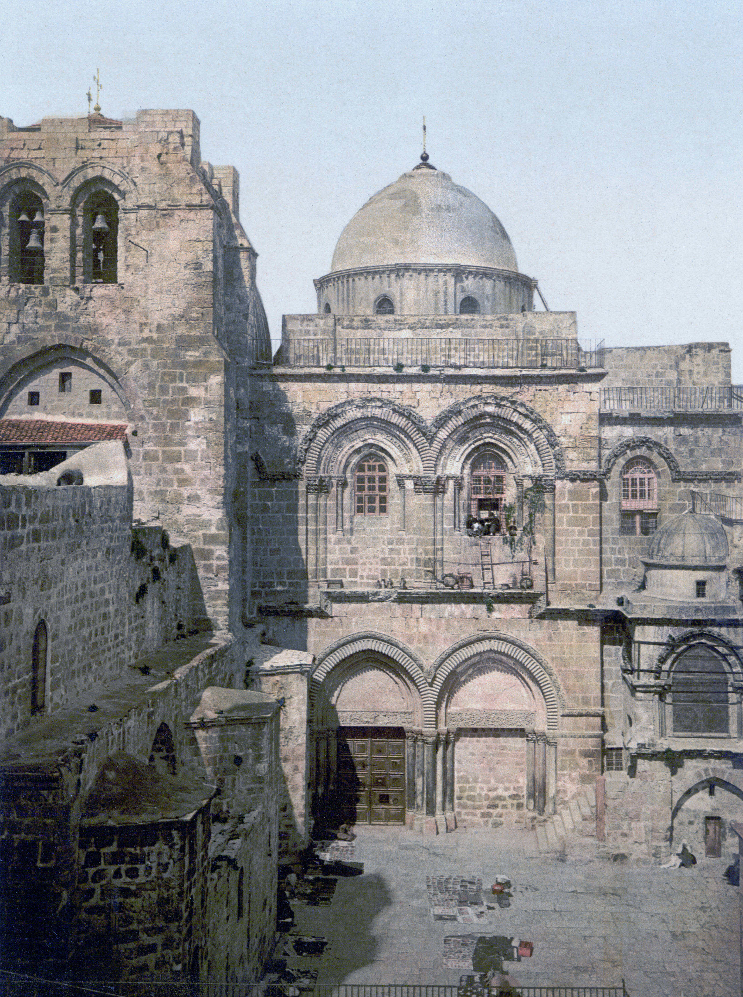 The front of the Holy Sepulchre in Jerusalem around 1900